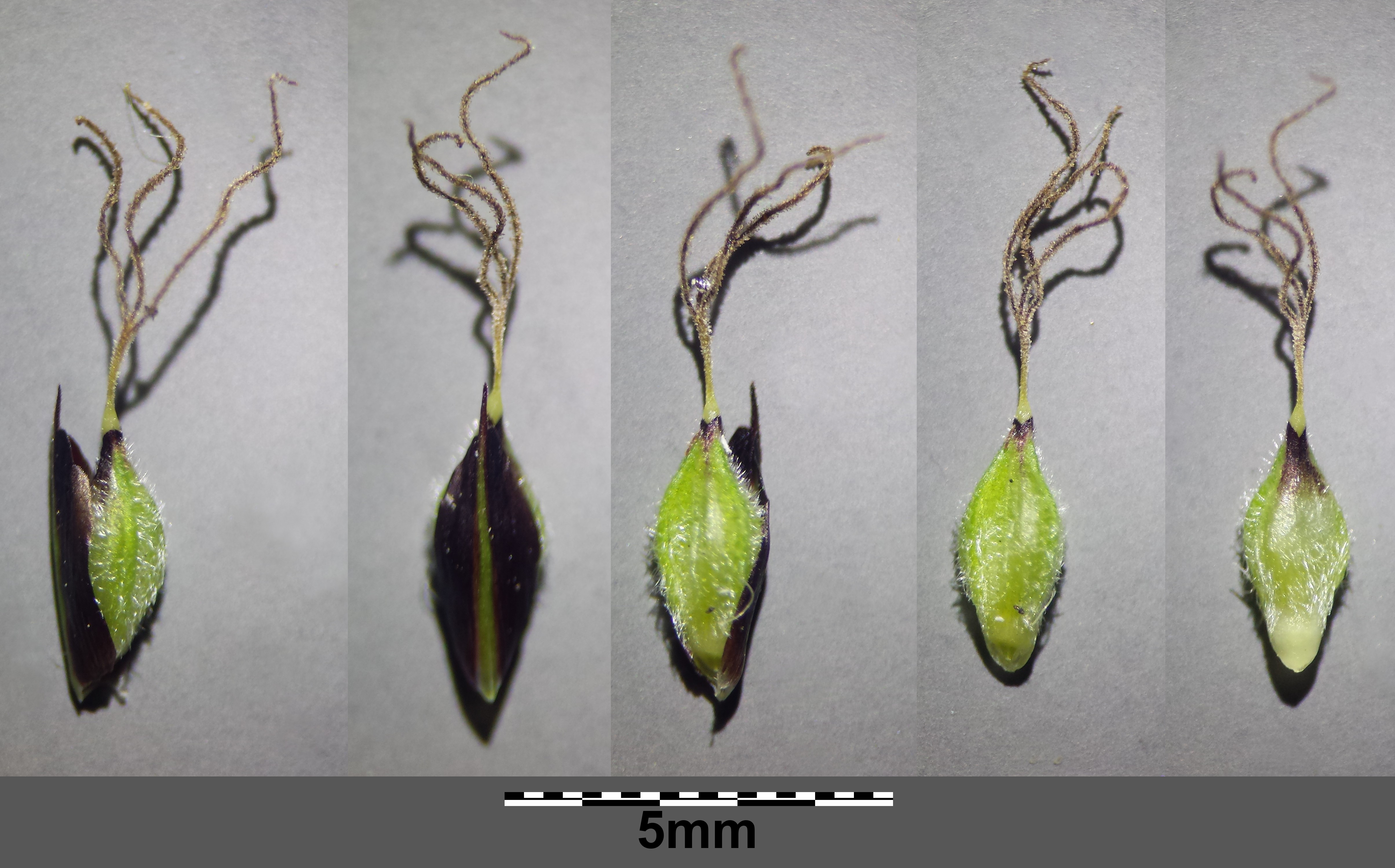 Utricle with glume Taxonym: Carex montana ss Fischer et al. EfÖLS 2008 ISBN 978-3-85474-187-9 Location: Rohrwald, district Korneuburg, Lower Austria - ca. 320 m a.s.l. Habitat: Carpinion betuli